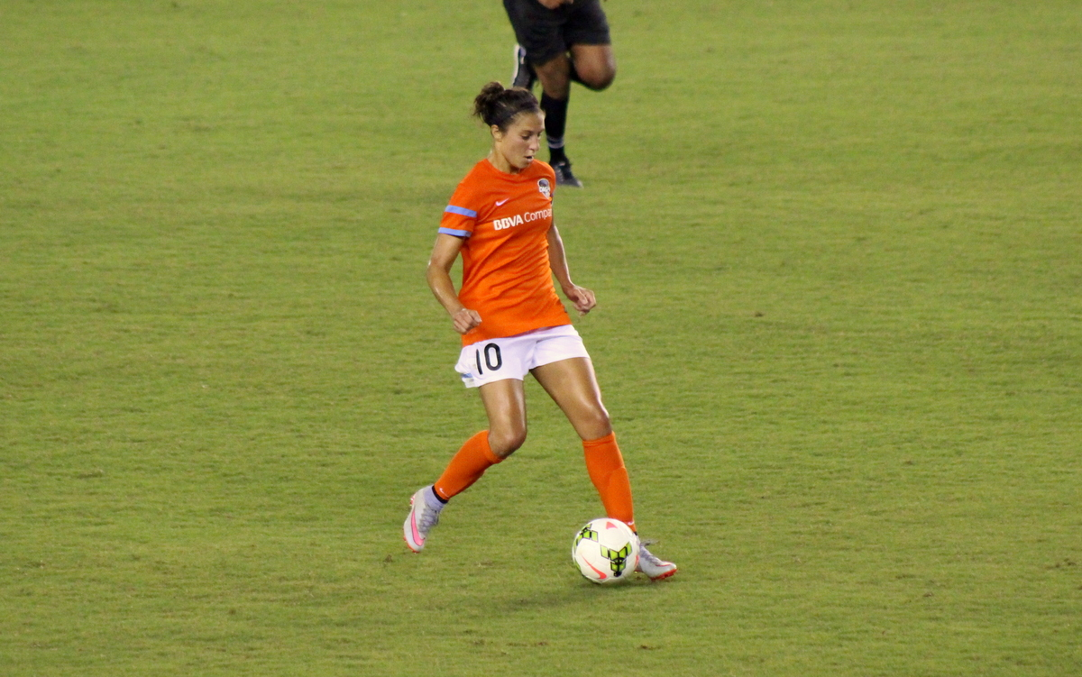 August 30, 2015 at BBVA Compass Stadium in Houston, Texas.